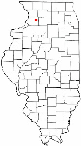 Category:Illinois city locator maps